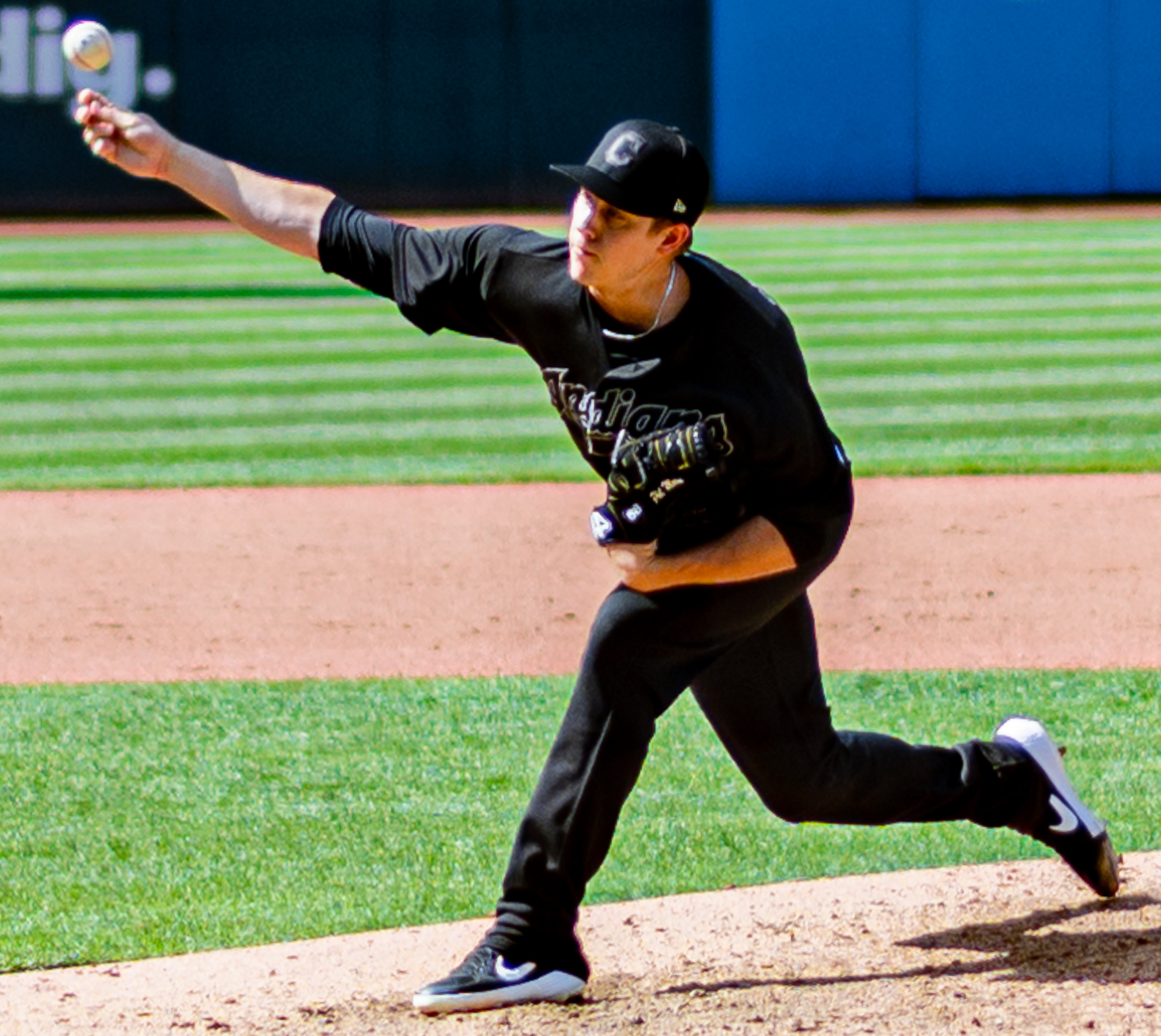 Cleveland Indians vs. Kansas City Royals